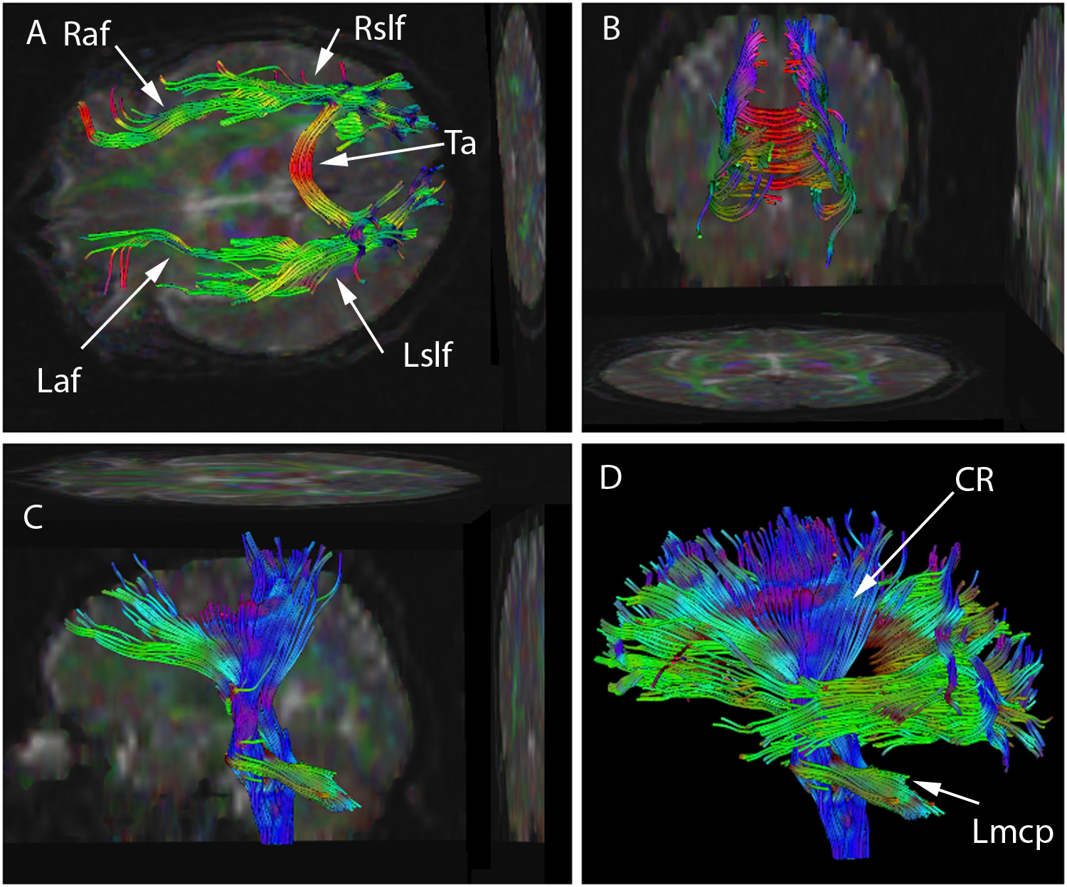 This is an anonymous clinical image provided by Aaron G. Filler, MD, PhD. The patient has signed a release for use of the anonymized image for educational, research, and teaching purposes. The image was converted from DICOM acquisition format into jpeg format, anonymized, and posted by Dr. Filler. It is intended for GDFL licensure for reuse for academic, scientific, educational uses without further permissions. Attribution to Aaron Filler, MD, PhD is requested.